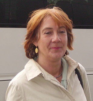 Mrs Karoline Linnert, the finance minister of the German federal state of Bremen - Please do not use the picture for advertisement!